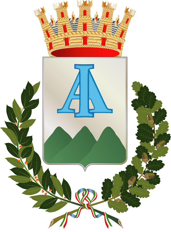 Coat of arms of Ariano Irpino (Avellino), Italy